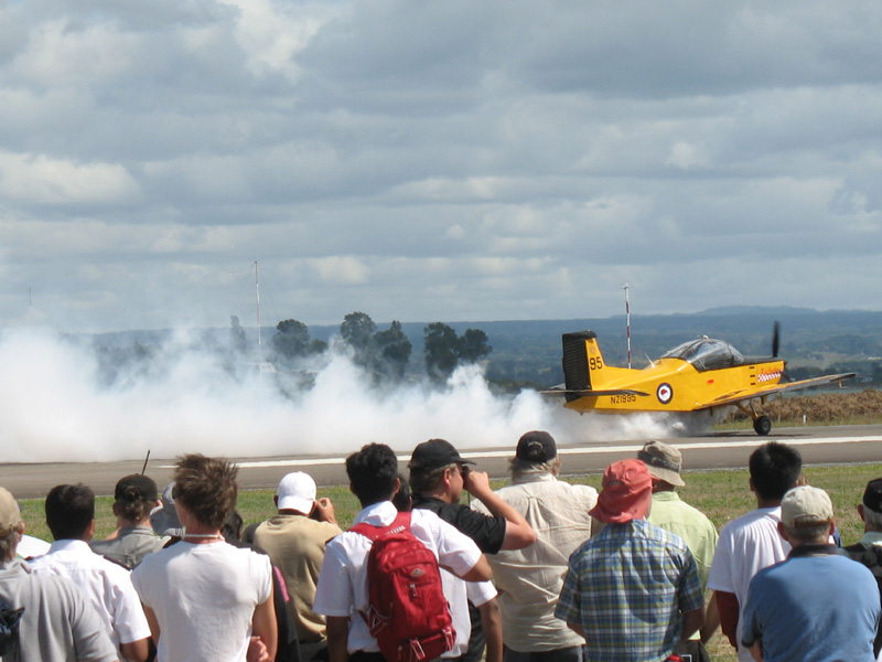 CT-4E Airtrainer of the Royal New Zealand Air Force Red Checkers at the 2008 Tauranga City Airshow